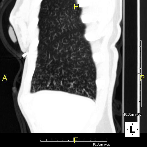 Saggital reformatted CT image showing "tree in bud" appearance of impacted distal small airways in Kartagener Syndrome.